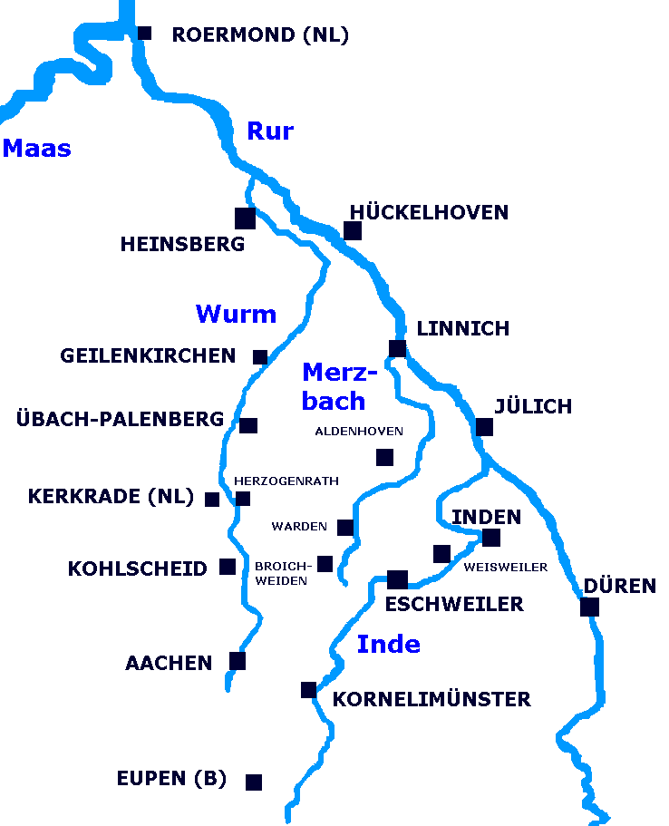 Map of the Rur Basin — of the River Rur (Roer River) and the tributaries of the Rur. The Rur Basin is in western Germany, Belgium, and the Netherlands. The Rur/Roer is a tributary Meuse River. Also showing the courses of the tributary Inde and Wurm rivers.